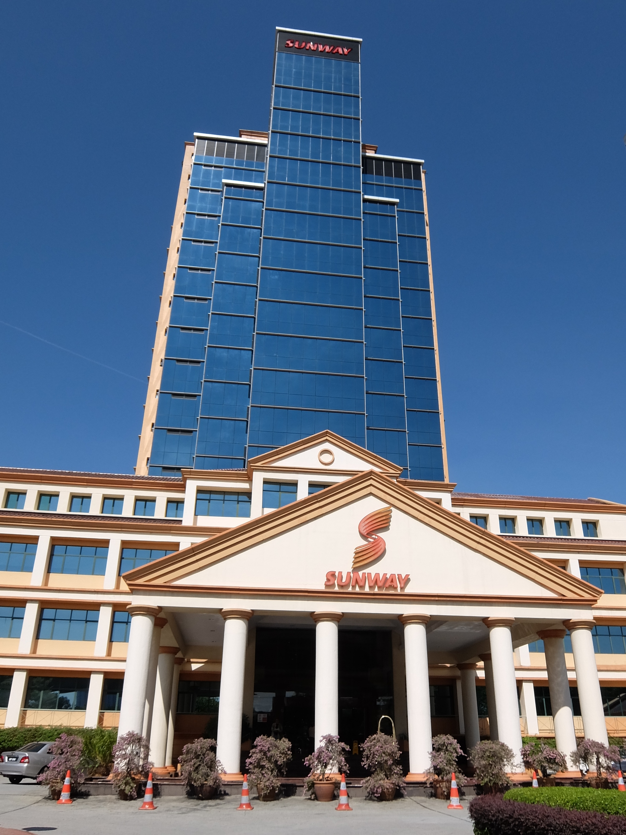 Sunway Tower, Bandar Sunway, Subang Jaya, Petaling, Selangor, Malaysia